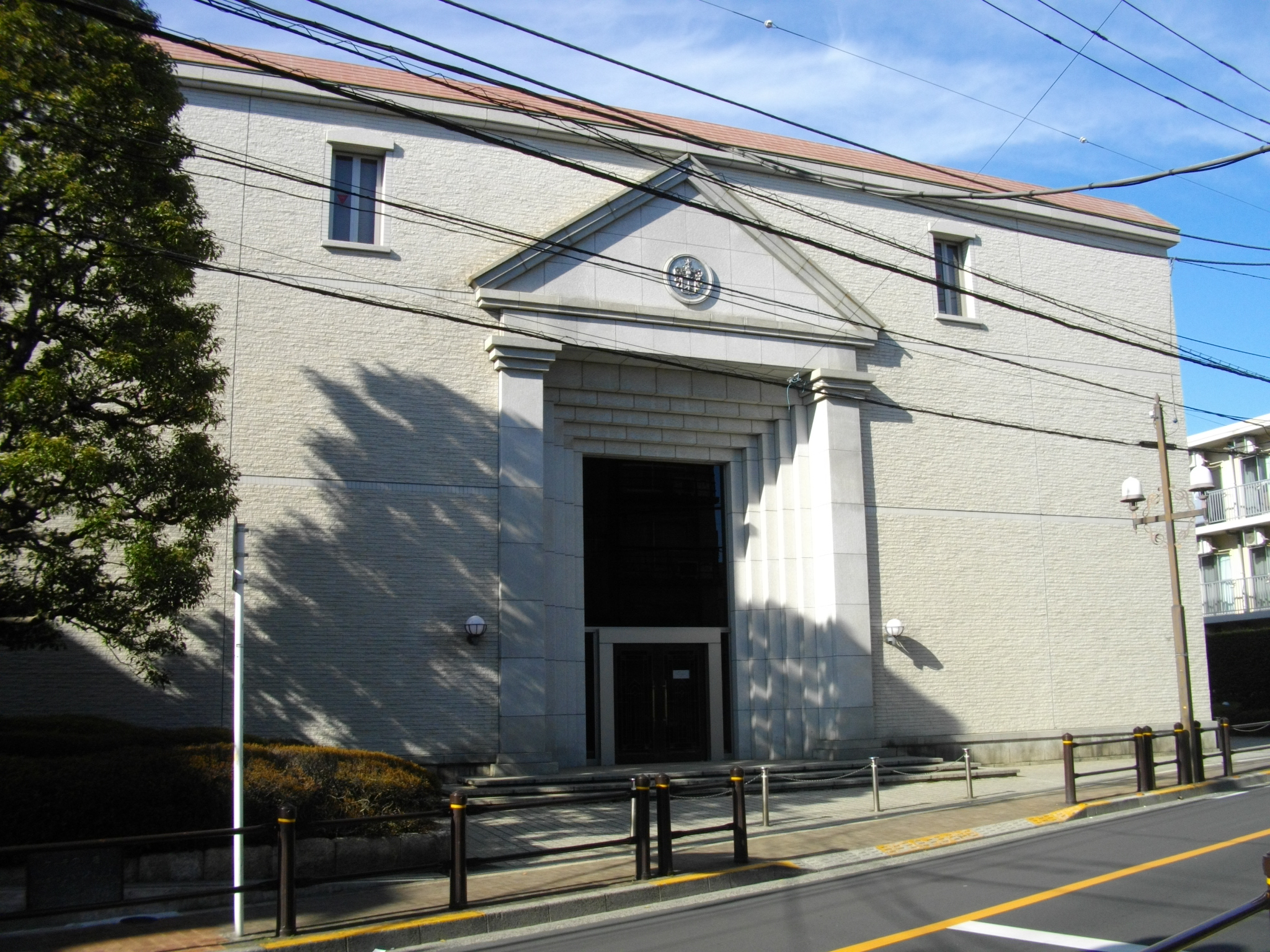 Goethe Archive Tokyo Building